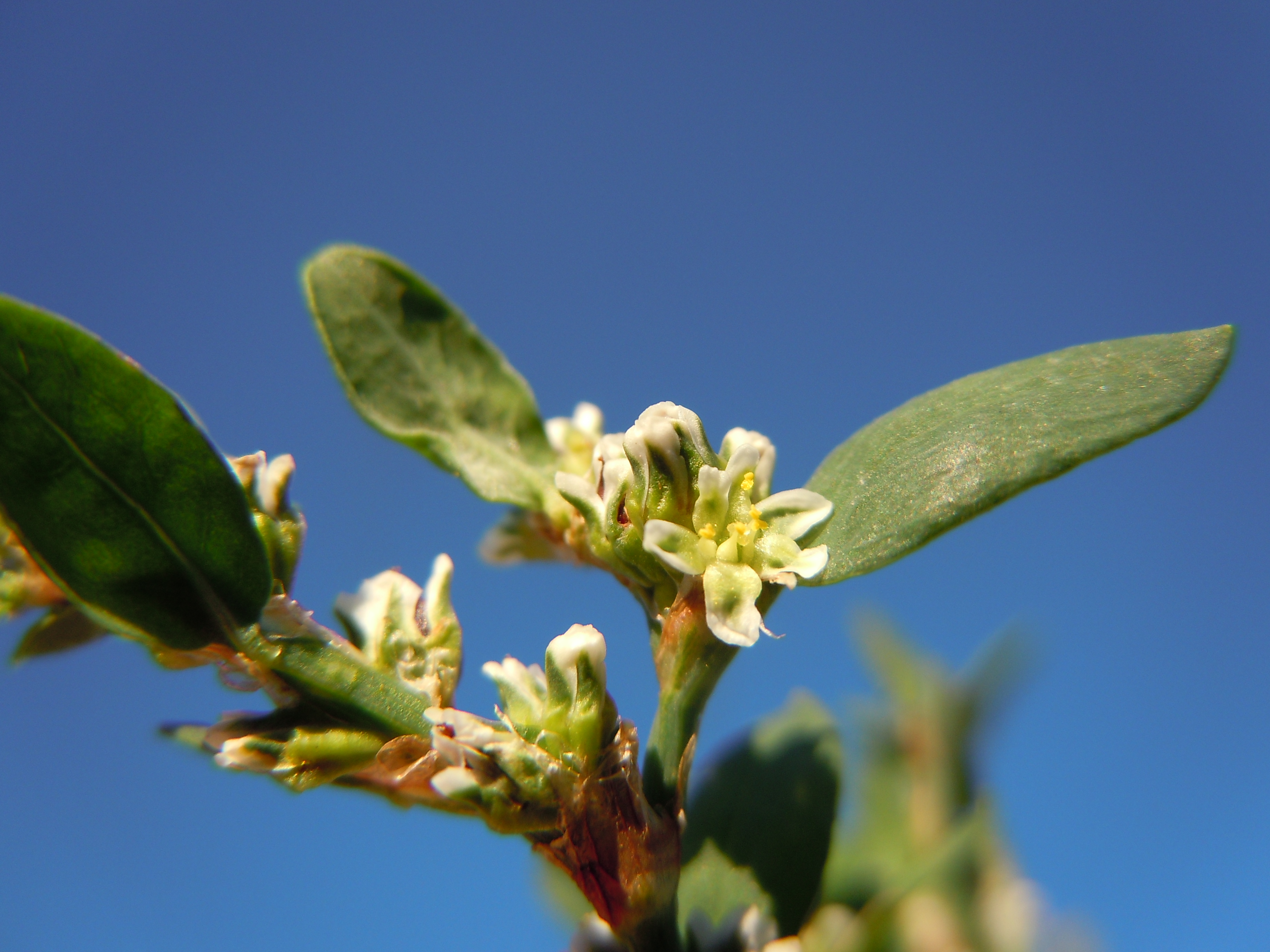 The flowers tend to be showier in Polygonum aviculare because all of the tepals are of the same size and texture and with a contrasty white pigment.